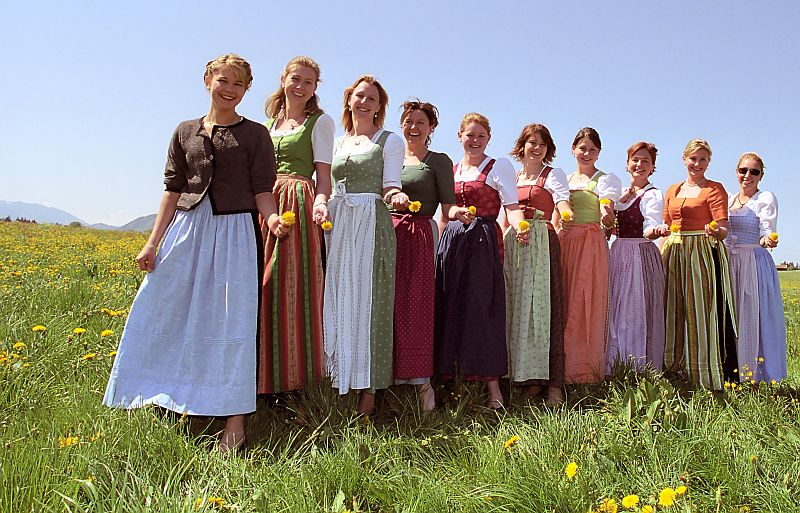 Young women in dirndls ("maid's dress")